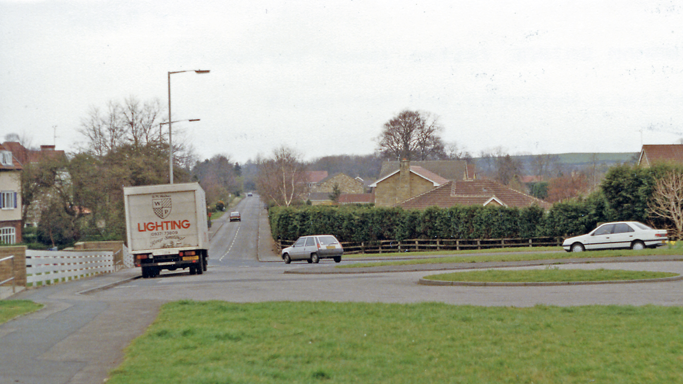 Site of Collingham Bridge station, 1989. View northward, towards Wetherby: ex-NE Leeds - Wetherby line, closed 6/1/64. [It's not obvious where the railway was].